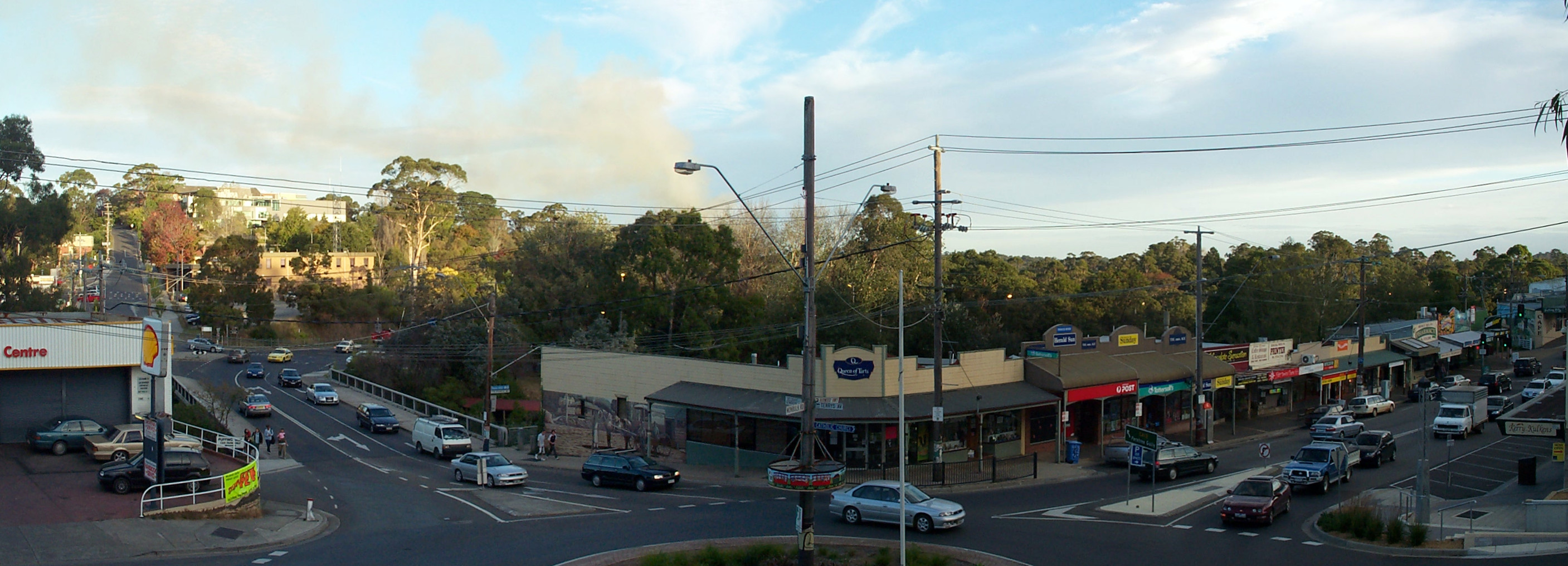 Panorama photograph of the main street of Belgrave.